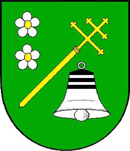 Municipal coat of arms of Rostěnice-Zvonovice village, Vyškov District, Czech Republic.